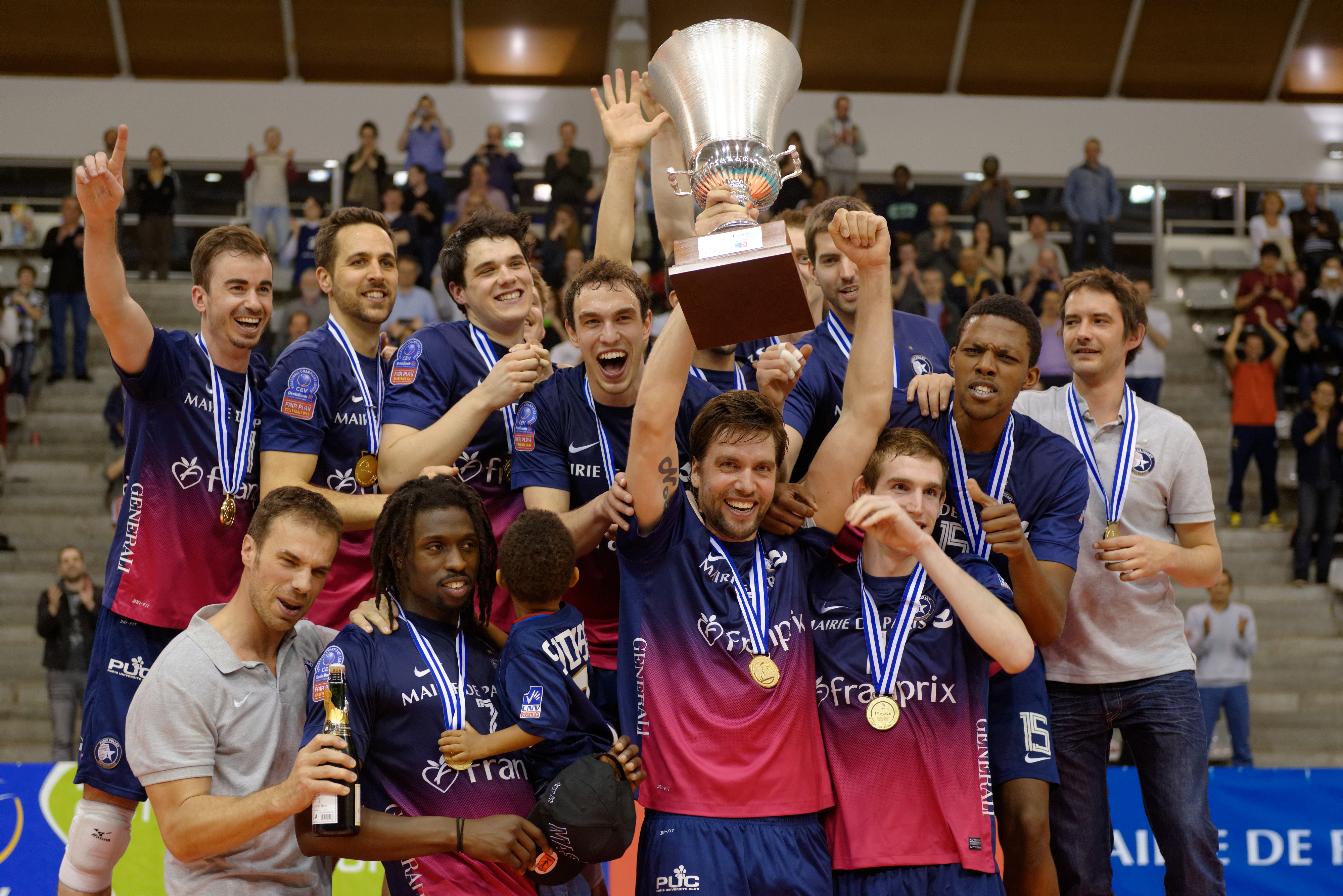 Paris Volley celebrate their victory over Guberniya Nizhny Novgorod in the final of the 2014 CEV Cup in Paris on 29 March 2014.